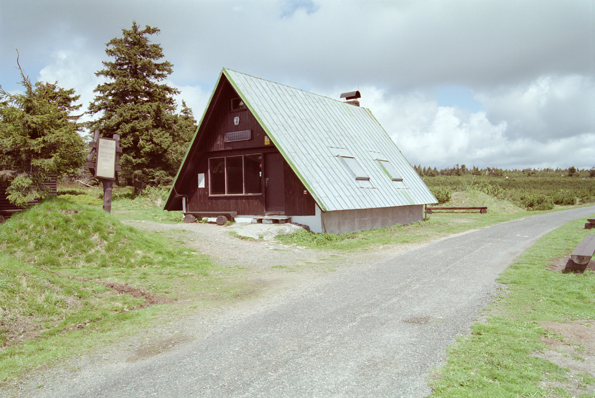 own picture, taken in spring 2006 kiosk and refuge at the mountain Velká Deštná in Orlické Hory in Czech Republic